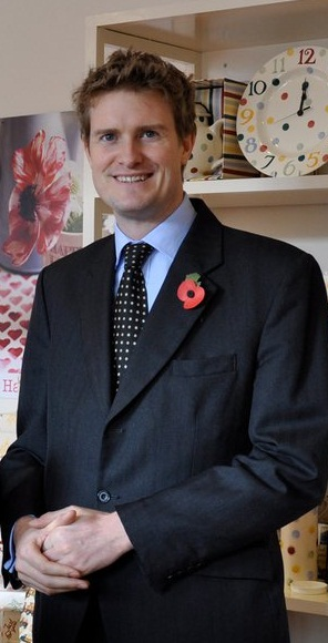 Tristram Hunt MP